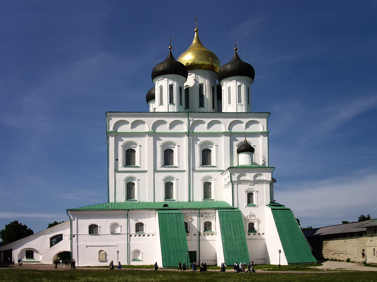 Holy Trinity Cathedral in Pskov, Russia.